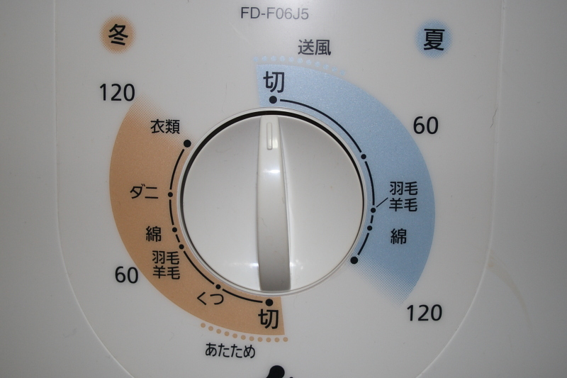 Timer of futon dryer